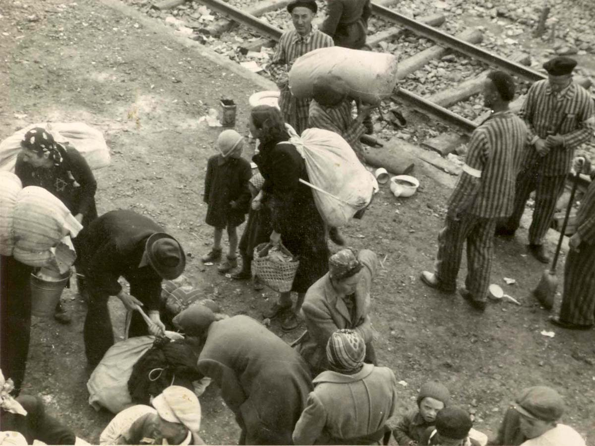 People arriving on the ramp at Auschwitz II-Birkenau, summer 1944. The image is part of the Auschwitz Album.